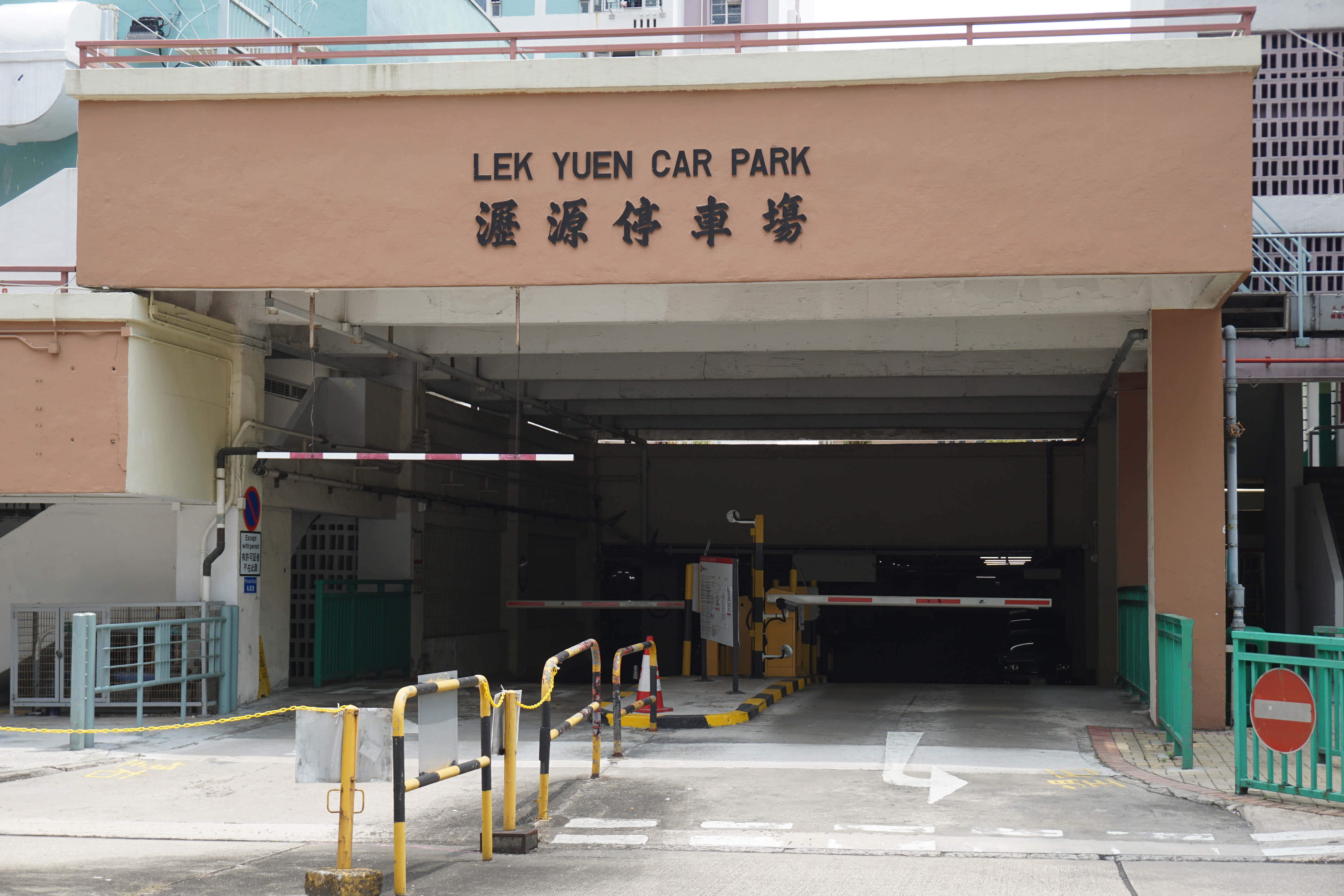 Lek Yuen Car Park in Shatin, Hong Kong.